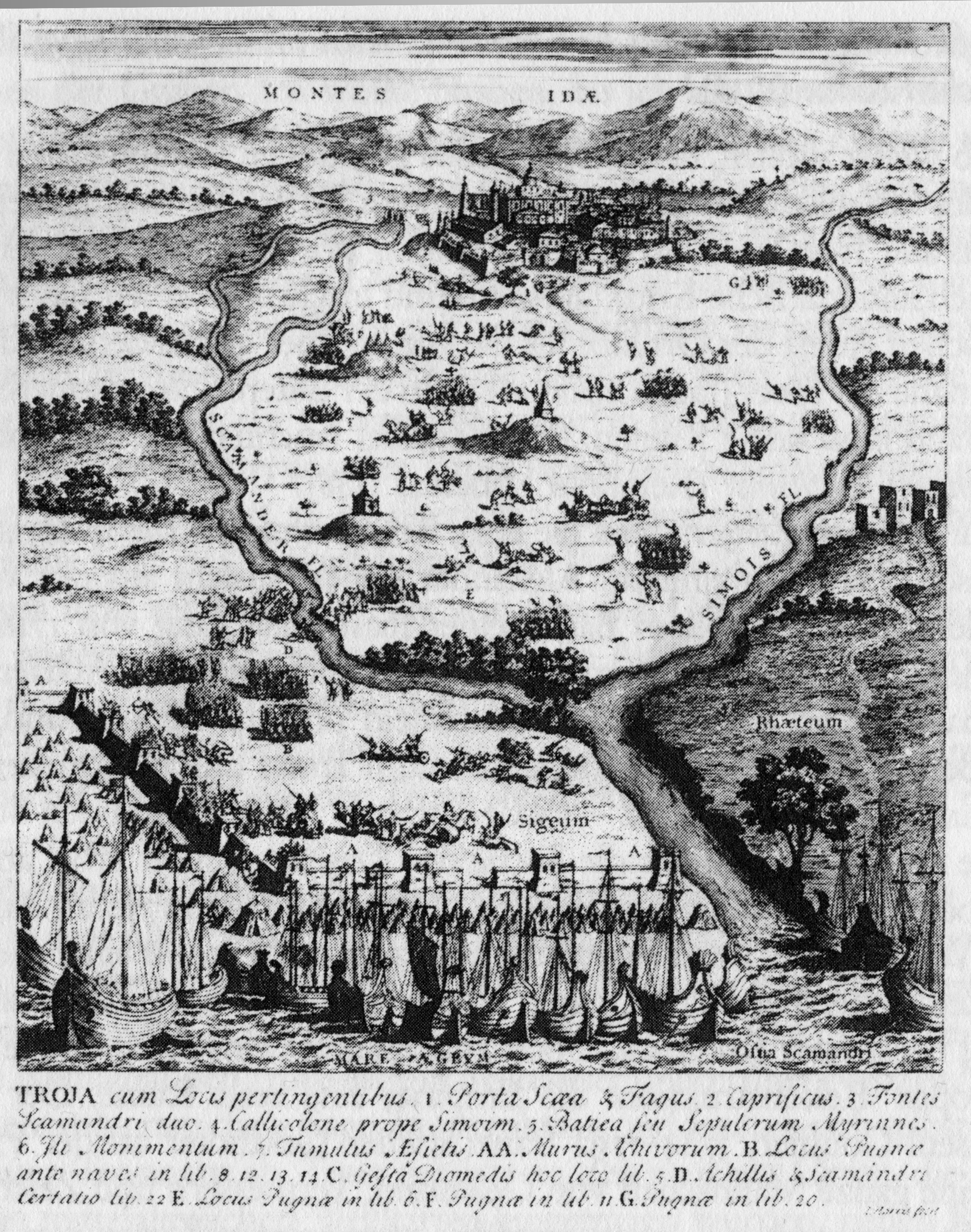 Historic reconstruction of the landscape of Troy from Vol.2 of Alexander Popes The Iliad of Homer